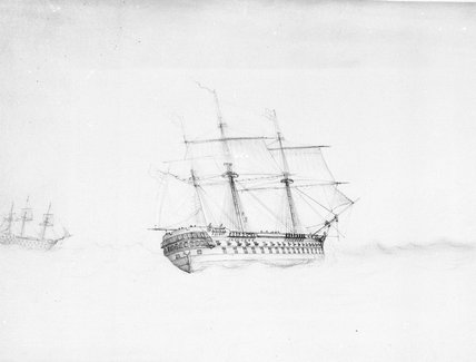 HMS Albion in a gale